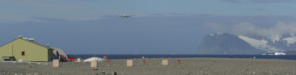 Basler landing at Rothera, with Bonner lab and Boat shed in fore ground Taken by Author in Jan 2004